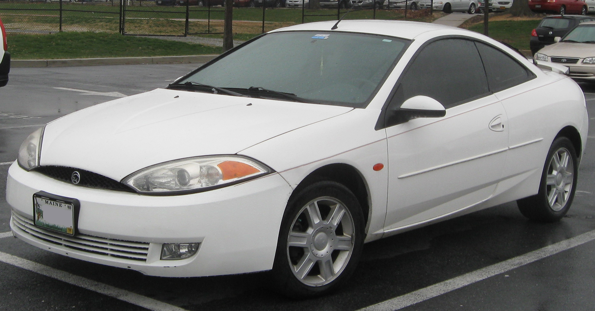 2001-2002 Mercury Cougar photographed in College Park, Maryland, USA.